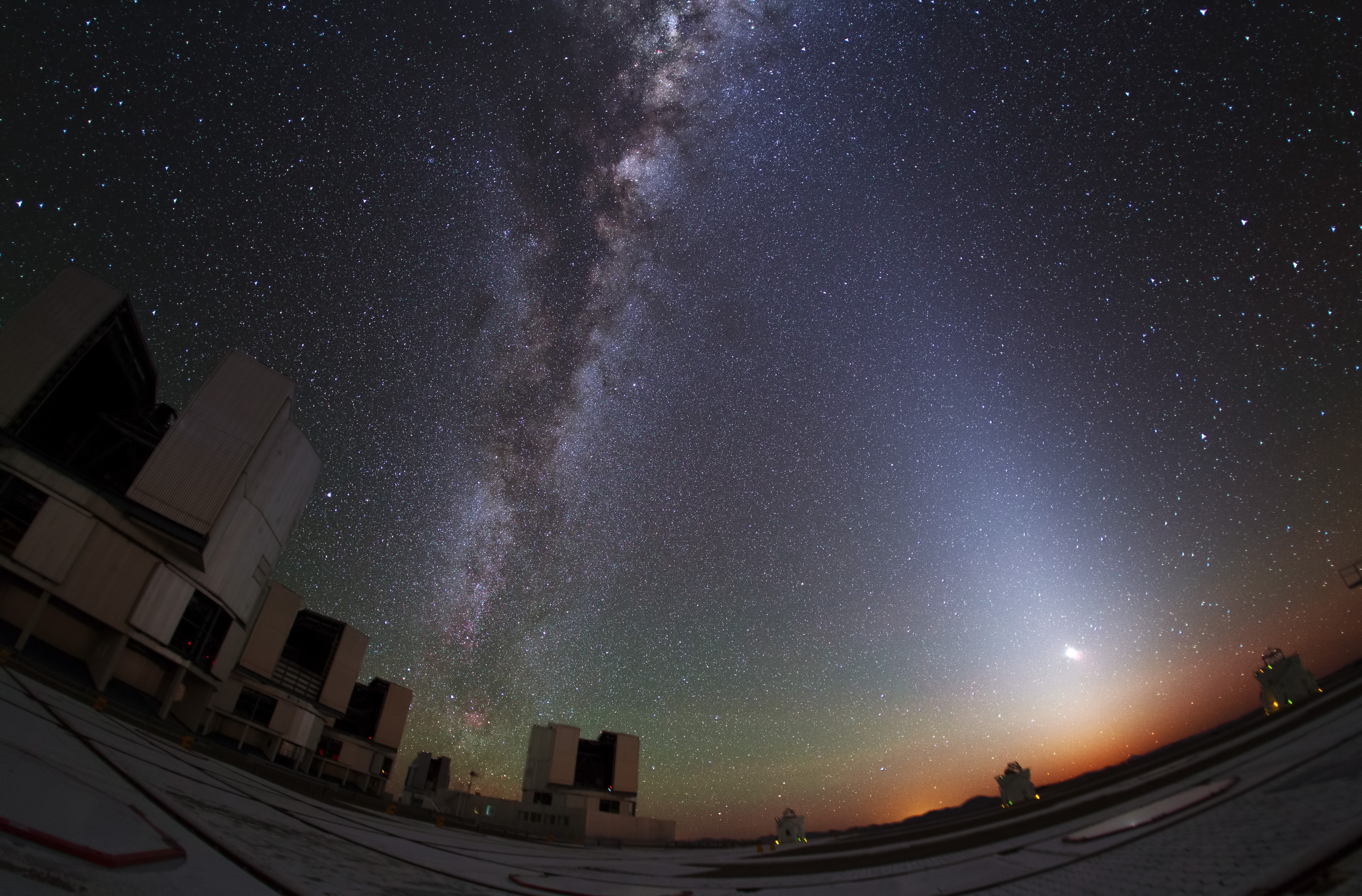 This impressive photograph, taken at the site of ESO’s Very Large Telescope (VLT) at Paranal Observatory in Chile, shows, towards the centre left, the Milky Way — with its share of nebulae, stars, and gas clouds — rising above the VLT Unit Telescopes. To the right, competing for attention as it arcs above the horizon, a beautiful, almost triangular band of diffuse light lies along the ecliptic, which is the apparent path of the Sun in the sky as seen from the Earth. This glow originates in the scattering of sunlight by dust located between the planets that are spread through the plane of the Solar System. This coincides in the sky with the band known as the Zodiac, which extends for eight degrees of arc on either side of the ecliptic and contains the traditional zodiacal constellations.Deitsch: Dieses beeindruckende Foto, aufgenommen am Standort des Very Large Telescope (VLT) am Paranal-Observatorium der ESO in Chile, zeigt in der linken Bildhälfte wie die Milchstraße – mit ihrem Gemenge aus Nebeln, Sternen und Gaswolken – über den VLT Hauptteleskopen aufgeht. Weiter rechts liegt ein wunderschöner, fast dreiecksförmiger Lichtbogen über der Ekliptik, die den scheinbaren Weg der Sonne am Himmel von der Erde aus gesehen markiert, und konkurriert um die Aufmerksamkeit des Betrachters. Dieses Leuchten entsteht durch Streuung von Sonnenlicht an Staubpartikeln, die in der Ebene zwischen den Planeten des Sonnensystems verteilt sind. Dieses Band korrespondiert mit dem Tierkreis, der sich über eine Breite von acht Grad zu jeder Seite der Ekliptik verteilt und die traditionellen Sternbilder der Tierkreiszeichen enthält.